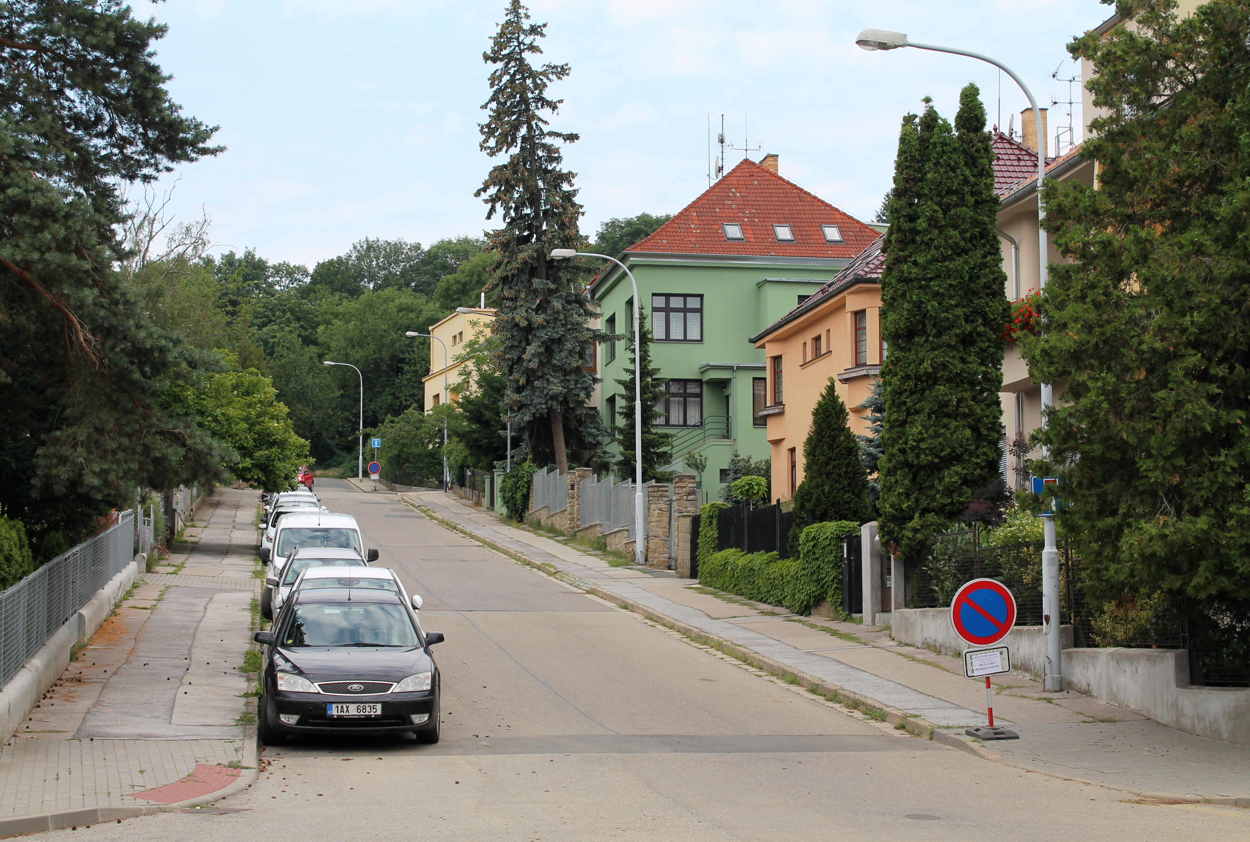 Wurmova street, Stránice, Brno, Czech Republic